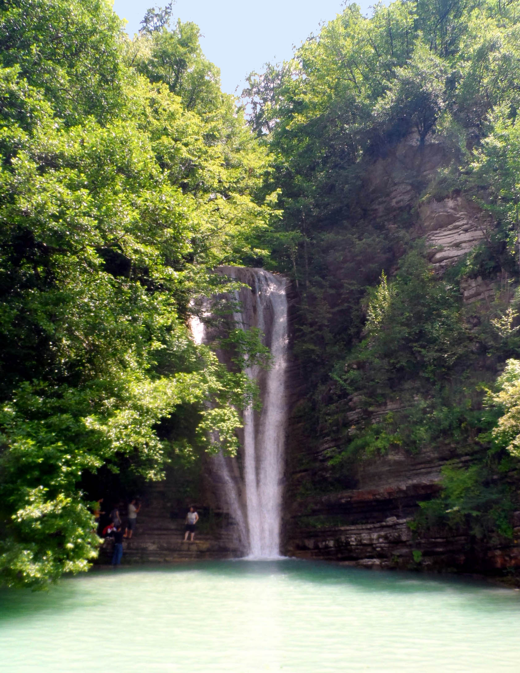 Tatlıca Waterfalls; the lowest step